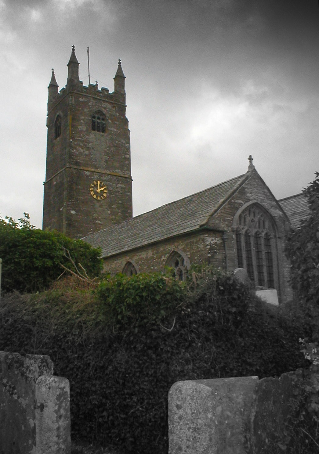 Photograph of St Mabyn parish church St Mabyn Cornwall England